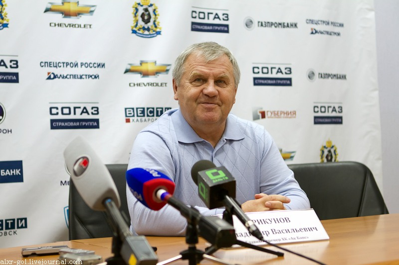 Ak Bars Kazan head coach Vladimir Krikunov after the KHL-game against Amur Khabarovsk on September 28, 2011 (Ak Bars lost 0-4).